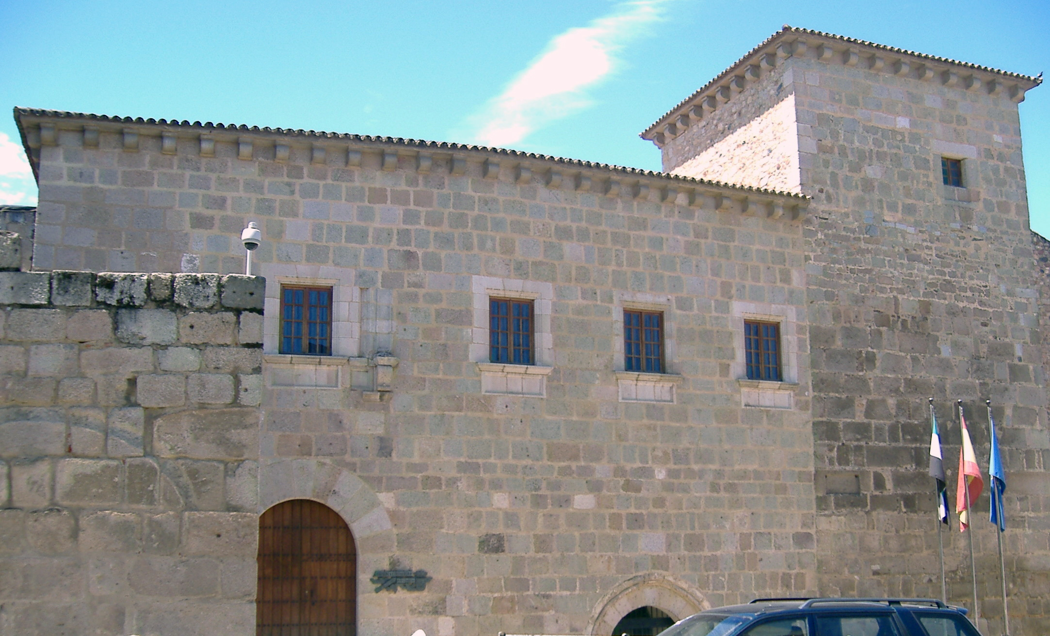 Conventual Santiaguista-Headquarters of the Presidency of the Regional Government of Extremadura, Spain